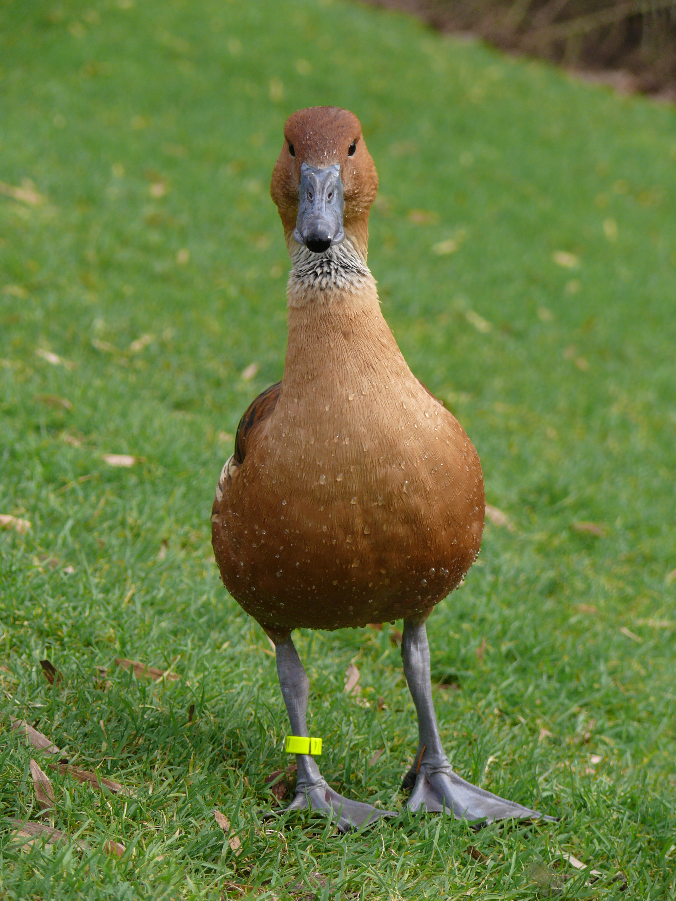 Dendrocygna bicolor in the botanical garden of Nantes (France).